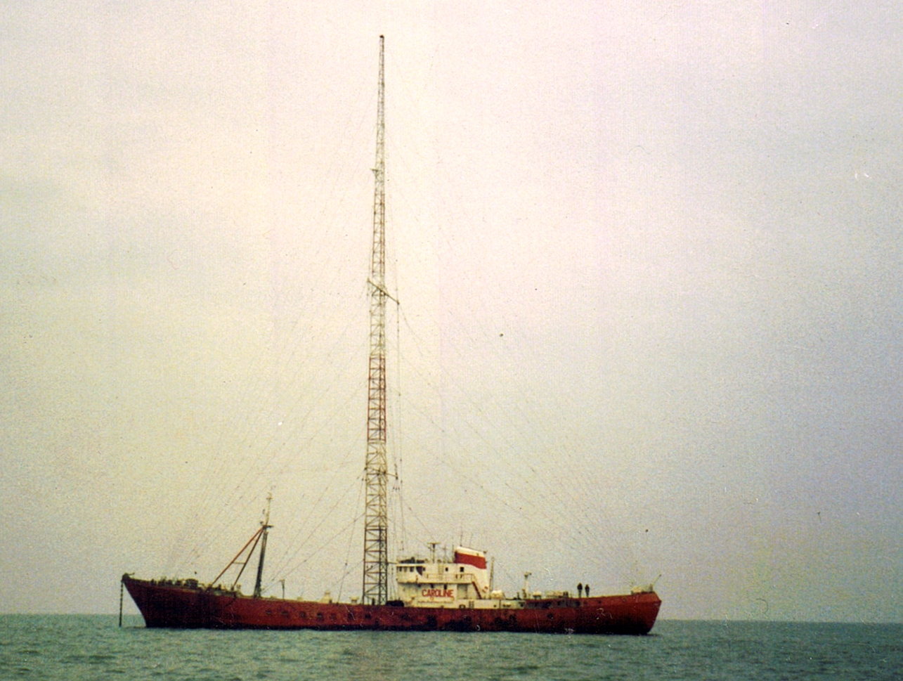 MV Ross Revenge, home of Radio Caroline from 1983. Photographed in 1984 at anchor in the Knock Deep channel of the southern North Sea.